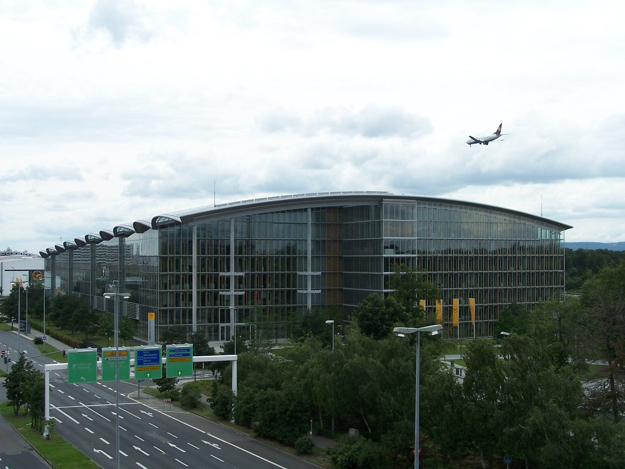 Lufthansa Aviation Center (LAC) at Frankfurt Airport - Building 366 Airportring 60546 Frankfurt/Main